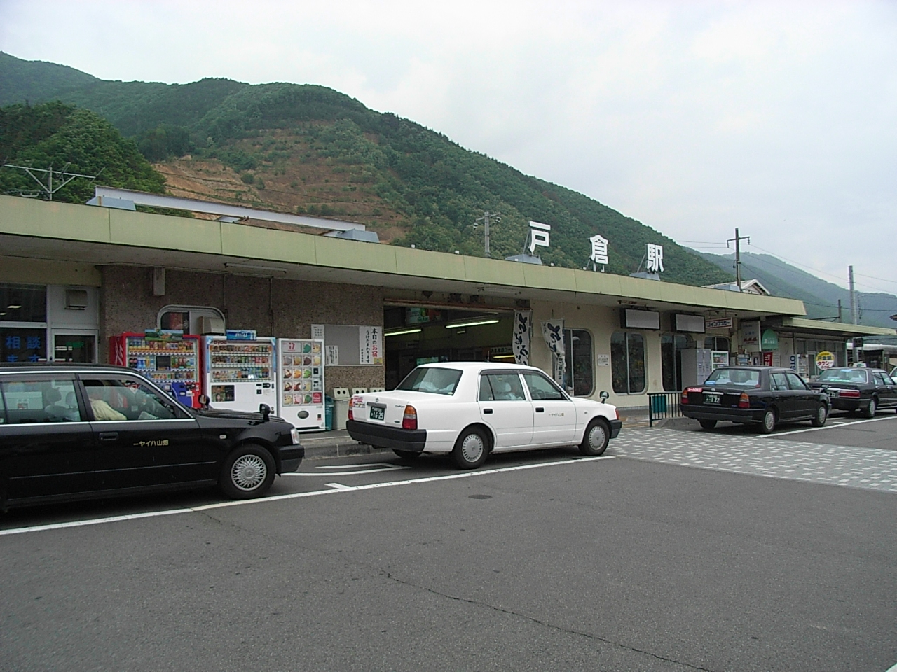 Togura Station on Shinano Railway. (1445,Togura,Chikuma-shi,Nagano-ken,JAPAN)